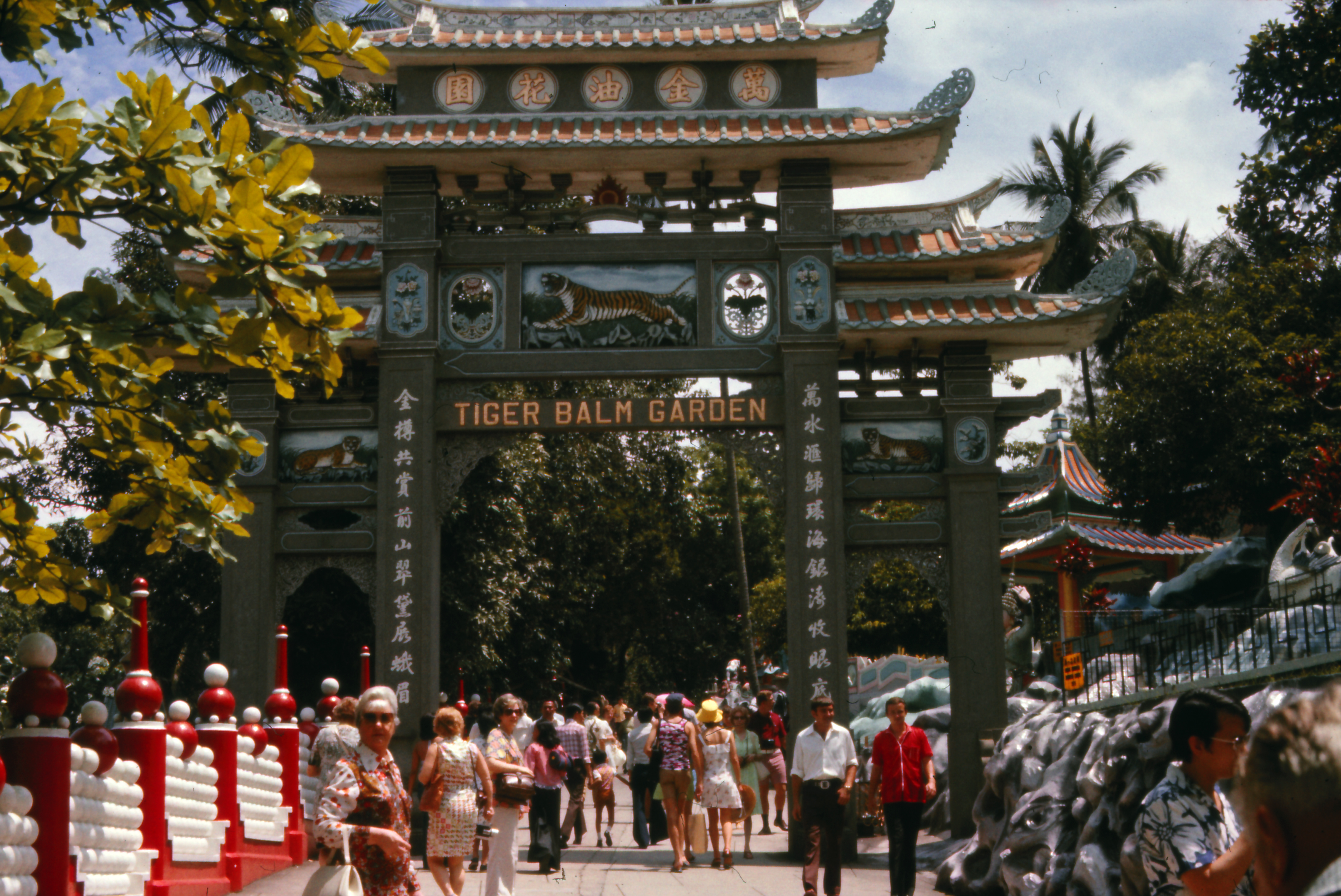 Entrance of Tiger Balm Garden in Hong Kong